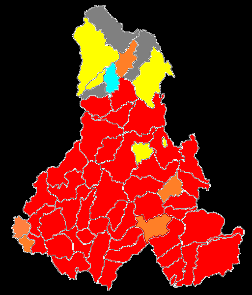 Hungarian minority in Harghita County (Romania), according to the 2011 census, by communes (red = hungarian majority over 80%, orange = hungarian majority between 50 - 70%, yellow = hungarian minority over 20%, blue = hungarian minority between 10 - 20%, grey = hungarian minority under 10%).